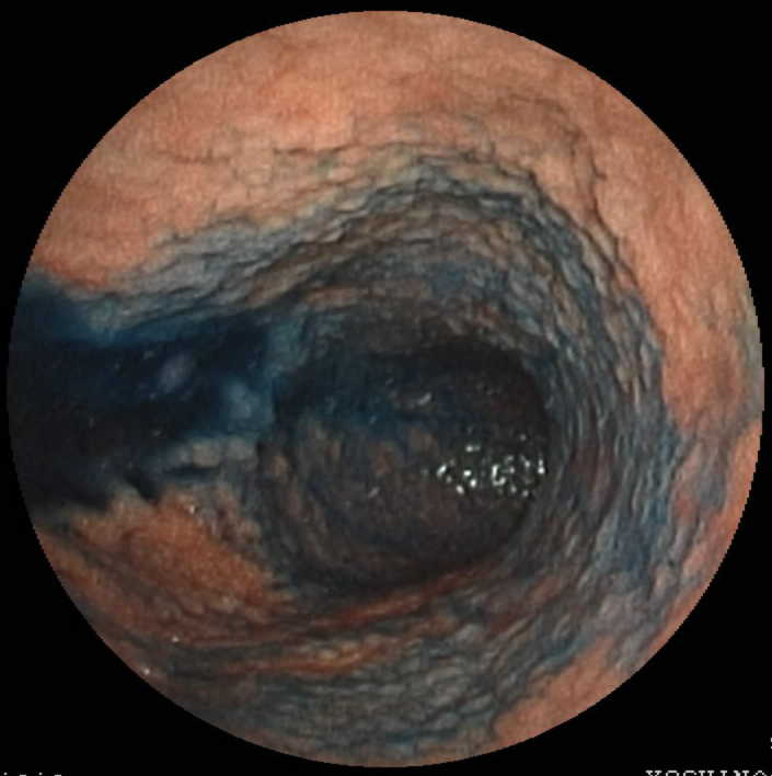 Nodular gastritis seen in esophagogastrodudenoscopy examination